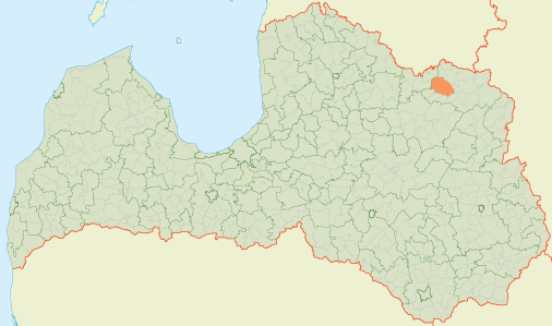 Location of Alsviķi Parish in Latvia